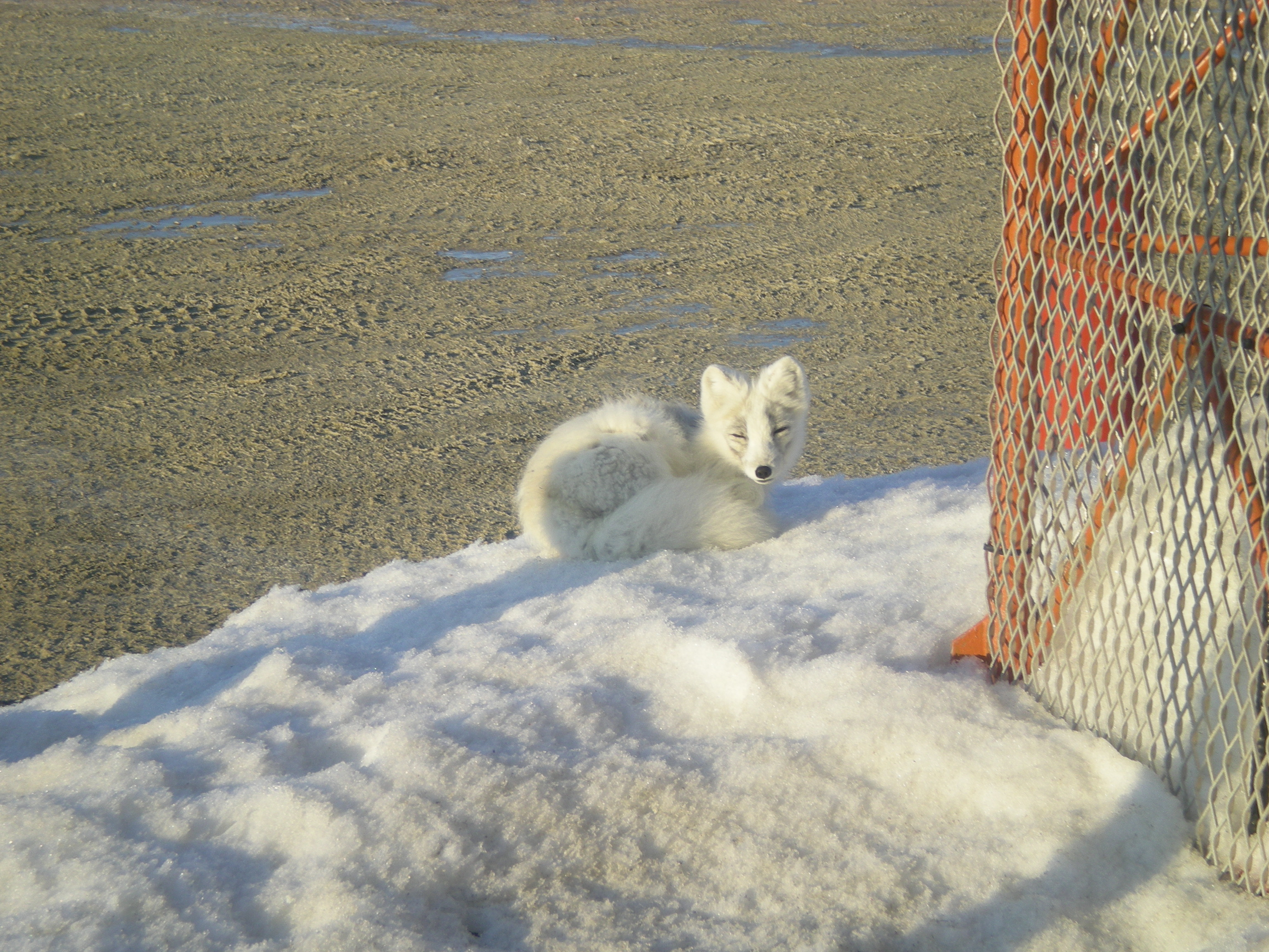 The fox was laying in the snow about 1.5 metres (5 ft) away and seemed to be enjoying the sun. It didn't move when I opened the door, a good indication that the fox was being fed by humans.